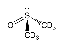 Deuterated DMSO structure